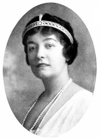 Portrait of Millicent Hearst, as a member of the New York State Commission for the Panama-Pacific International Exposition